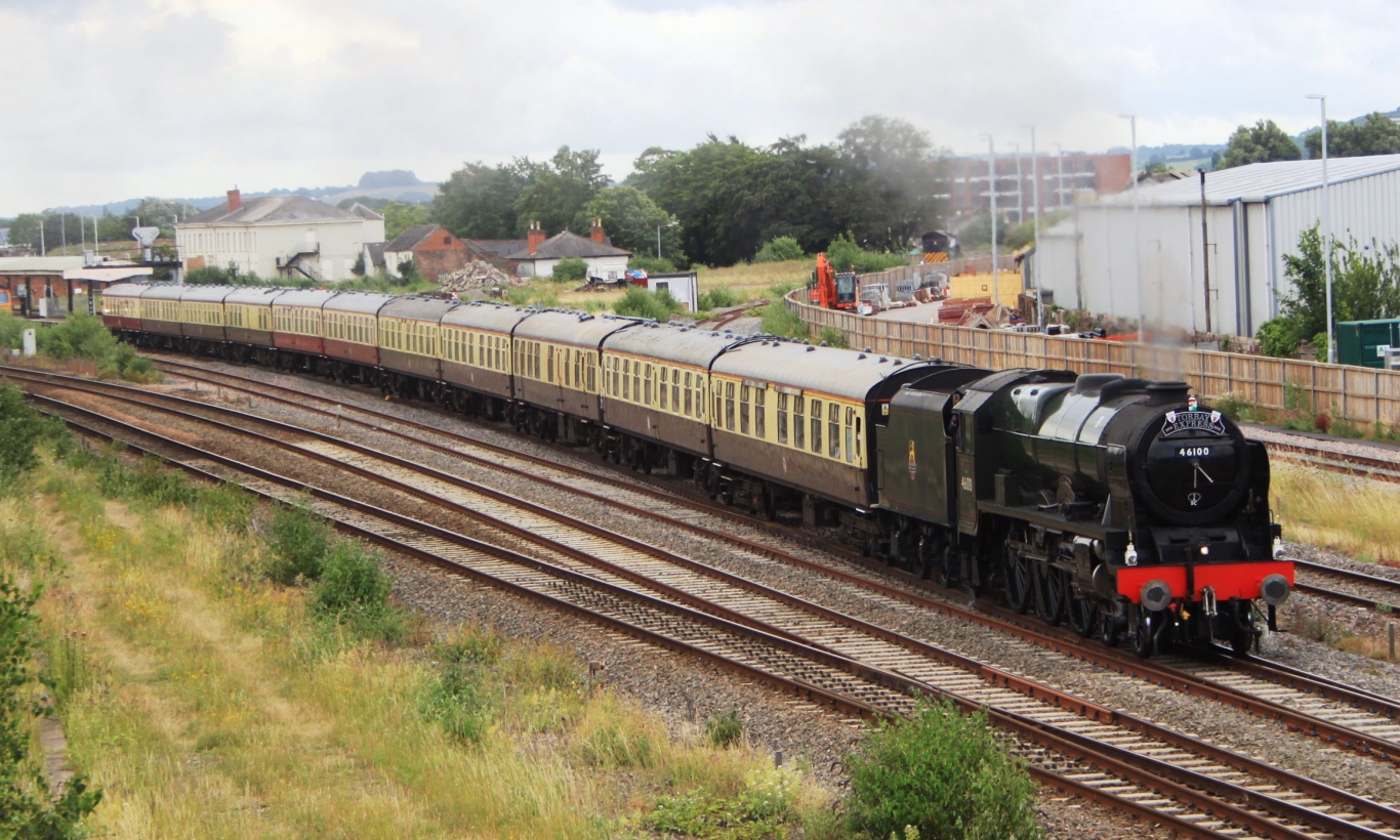 The Royal Scot pulls away from Taunton with a 'Torbay Express' excursion to Kingswear.